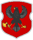 Coat of Arms of Orlia (Poland), old Беларуская (тарашкевіца): Герб места Орля, стары